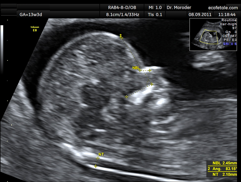 Ultrasound image of measurements of fetal nuchal translucency, facial angle and nasal bone at 13 weeks of pregnancy. The image has been certified by the Fetal medicine Foundation